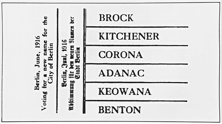 The civic ballot to rename Berlin, Ontario in June 1916. City of Kitchener, ID #20538